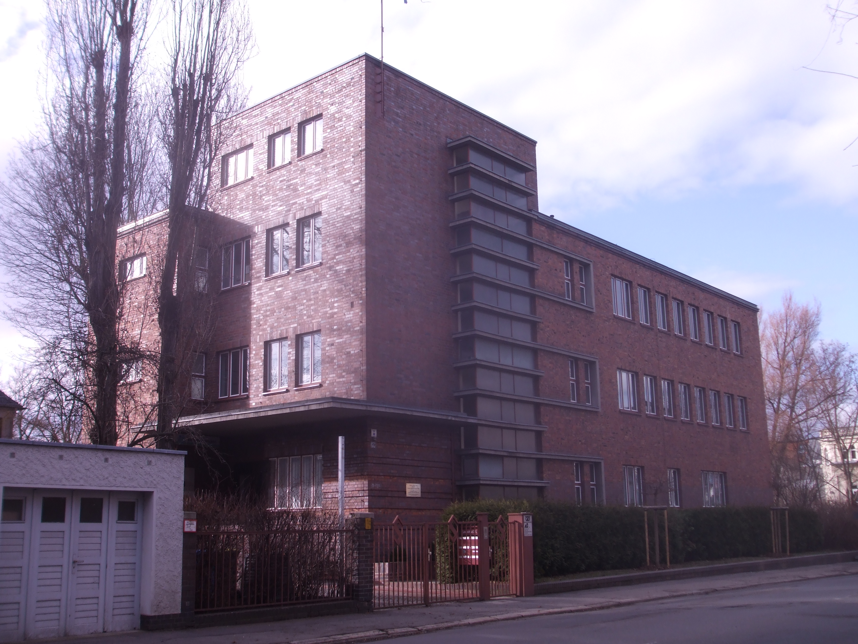 Former Dr. Schäfer Private Clinic at Gagarinstraße 19, Gera, Germany; built by Thilo Schoder